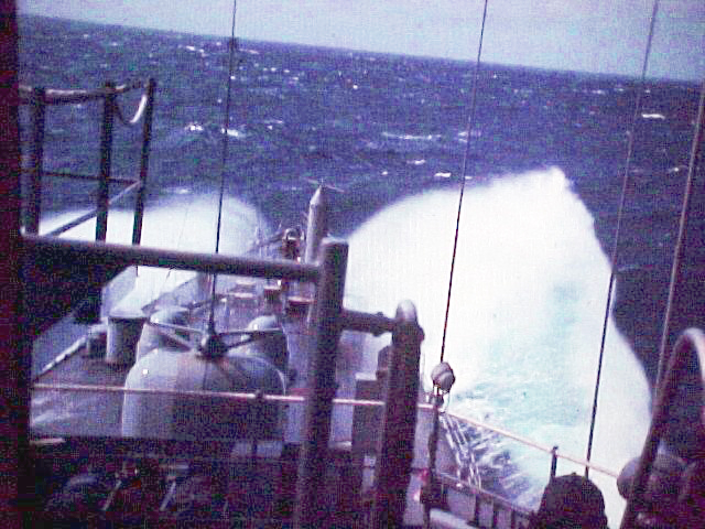 View from the O4 level forward, as the U.S. Navy guided missile cruiser USS Truxtun (CGN-35) drives through heavy weather during her deployment to the Western Pacific in 1993.